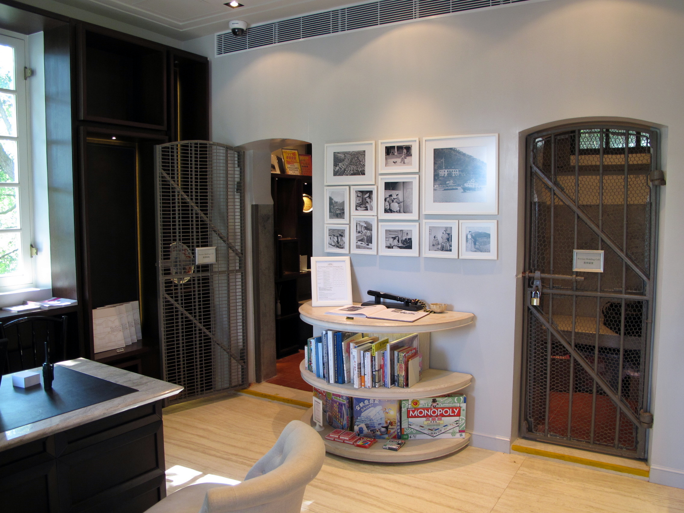 Tai O Heritage Hotel Lobby